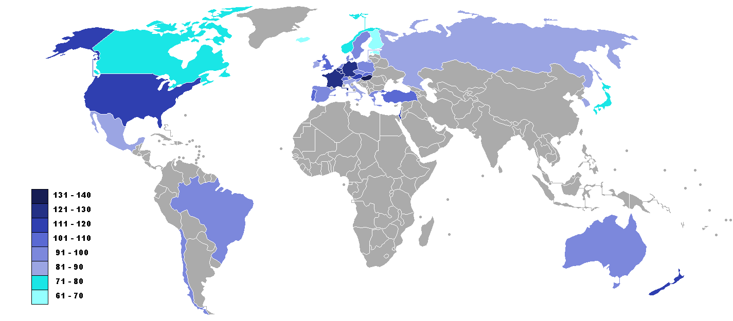 Education equality on countries that are members of the OECD. A Higher number represents a more unequal education system whilst a smaller number indicates a more equal education system.